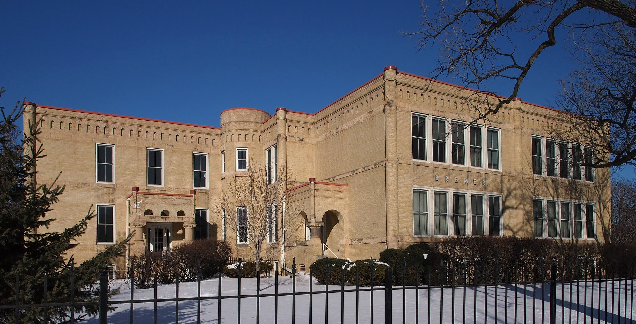 Fredrika Bremer Intermediate School, 1214 Lowry Ave N, Minneapolis, Minnesota, USA. Viewed from the southwest.